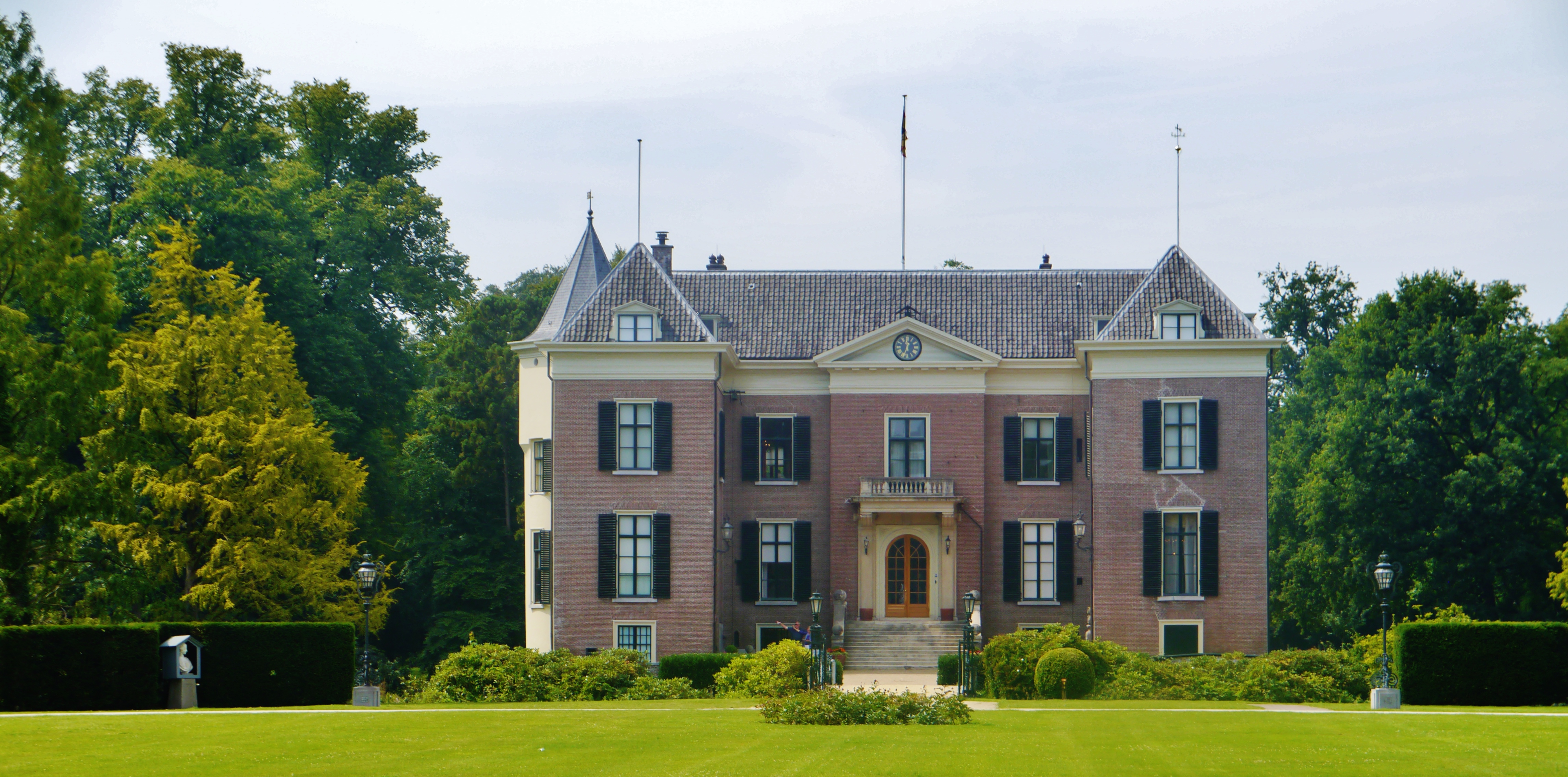 Doorn House, Doorn, Province of Utrecht, Netherlands